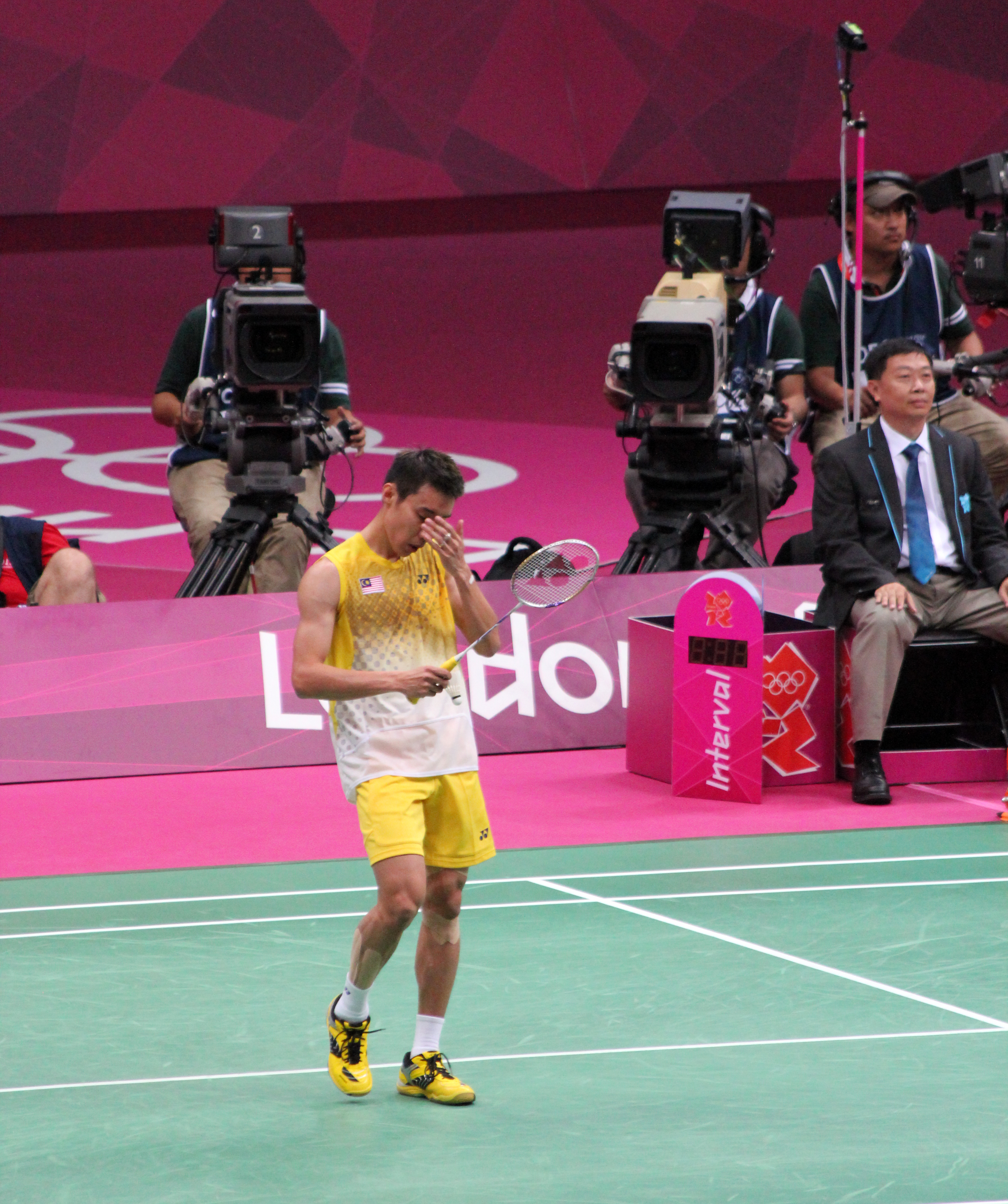 Mens badminton singles final between Lin Dan (China) and Lee Chong Wei (Malaysia) at the Wembley Arena, London 2012 Olympics